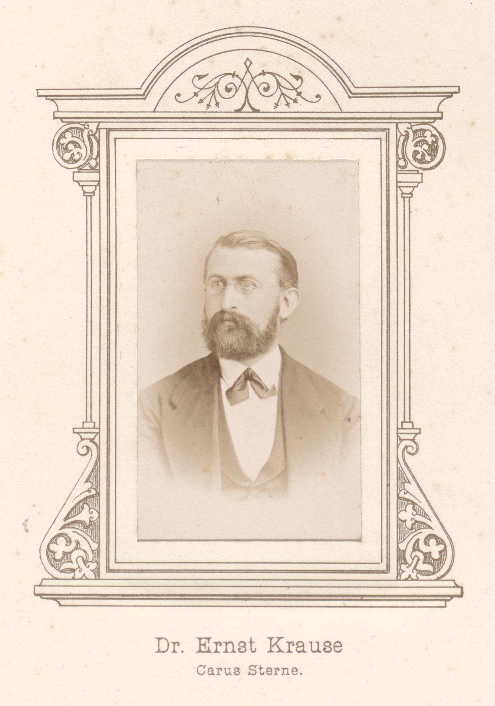 Plate 07 Photograph album of German and Austrian scientists. Berlin I: Dr. Ernst Krause.